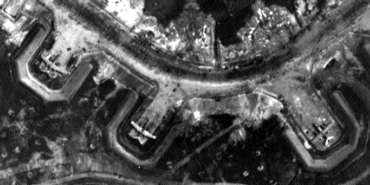 North Vietnamese Ilyushin Il-28 bombers (NATO reporting code "Beagle") at Gia Lam Air Base, North Vietnam, in 1965.